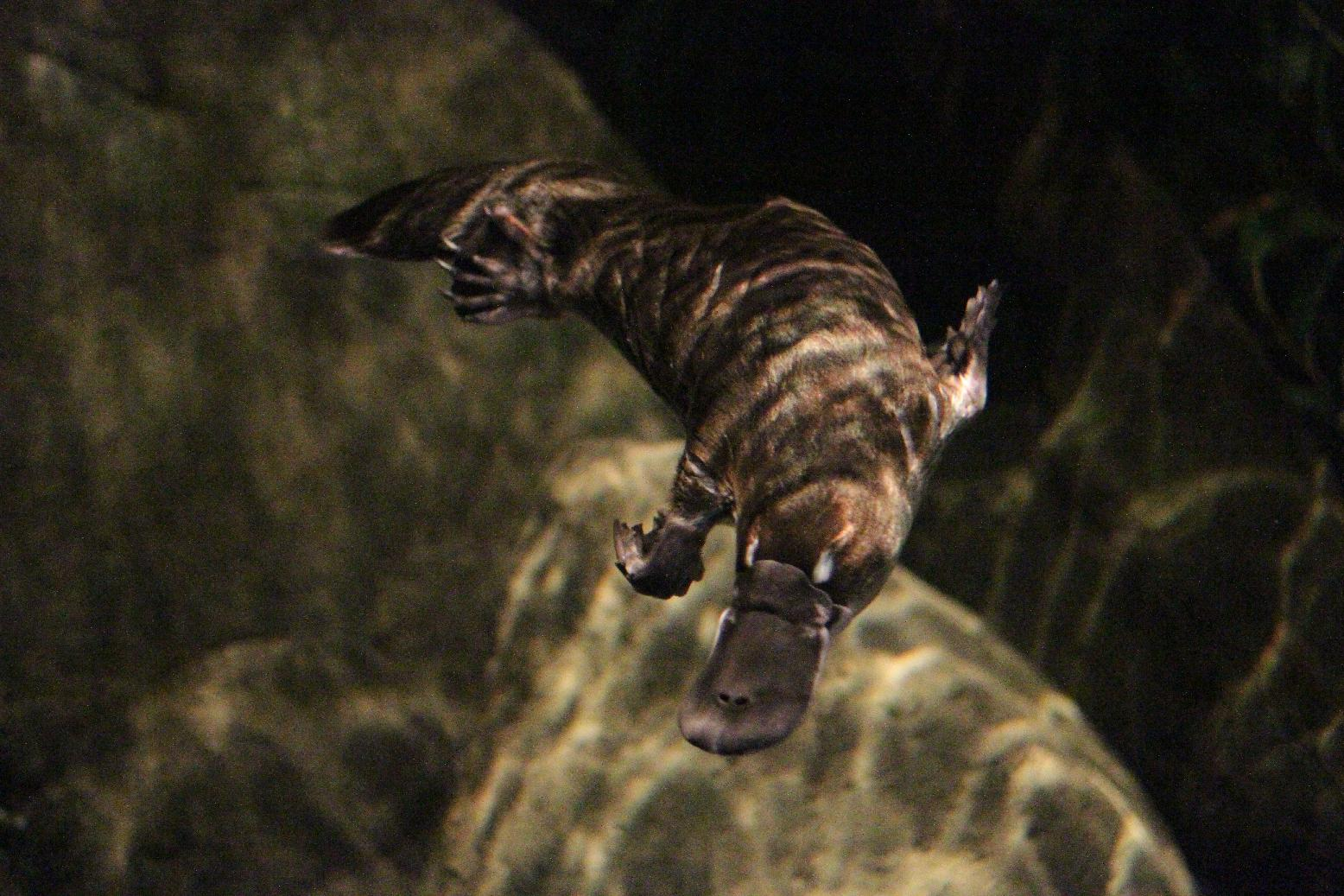 Platypus swimming at Lone Pine Koala Sanctuary